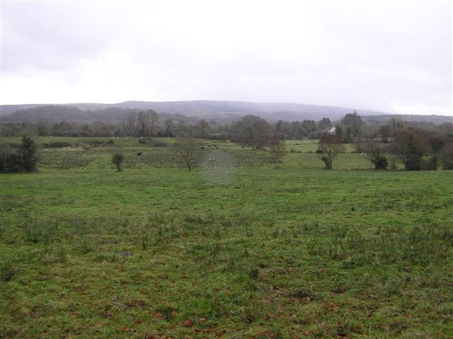 Cornagran Townland Looking south-east in the direction of Drumcondra